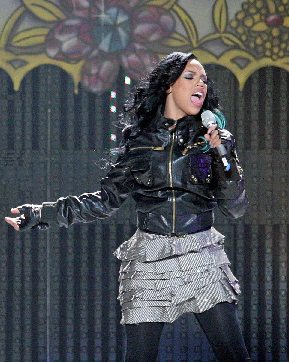 Kiely Williams during the "One World" Tour.